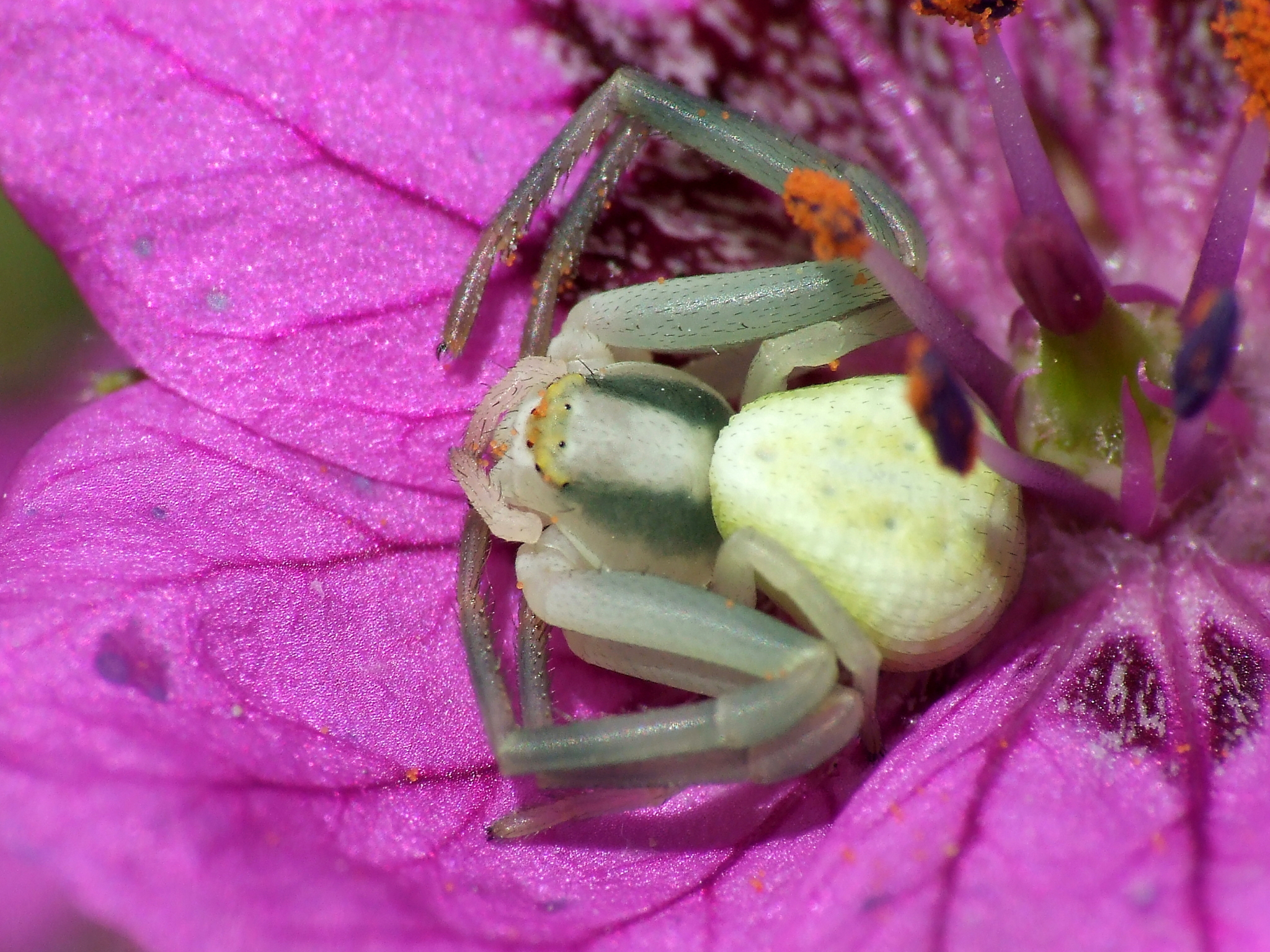 Female crab spider, Misumena Vatia